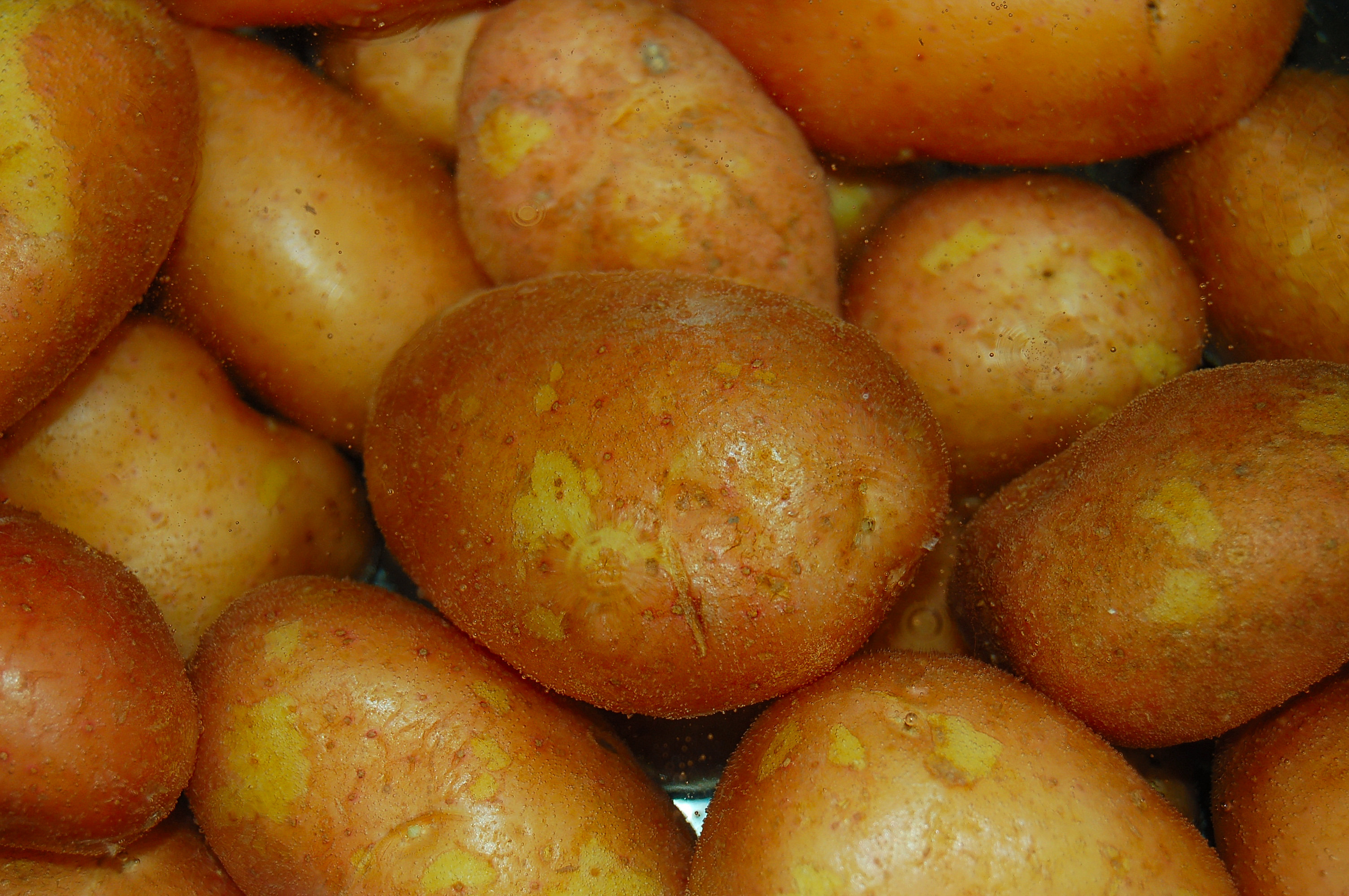 author:Ba'Gamnan